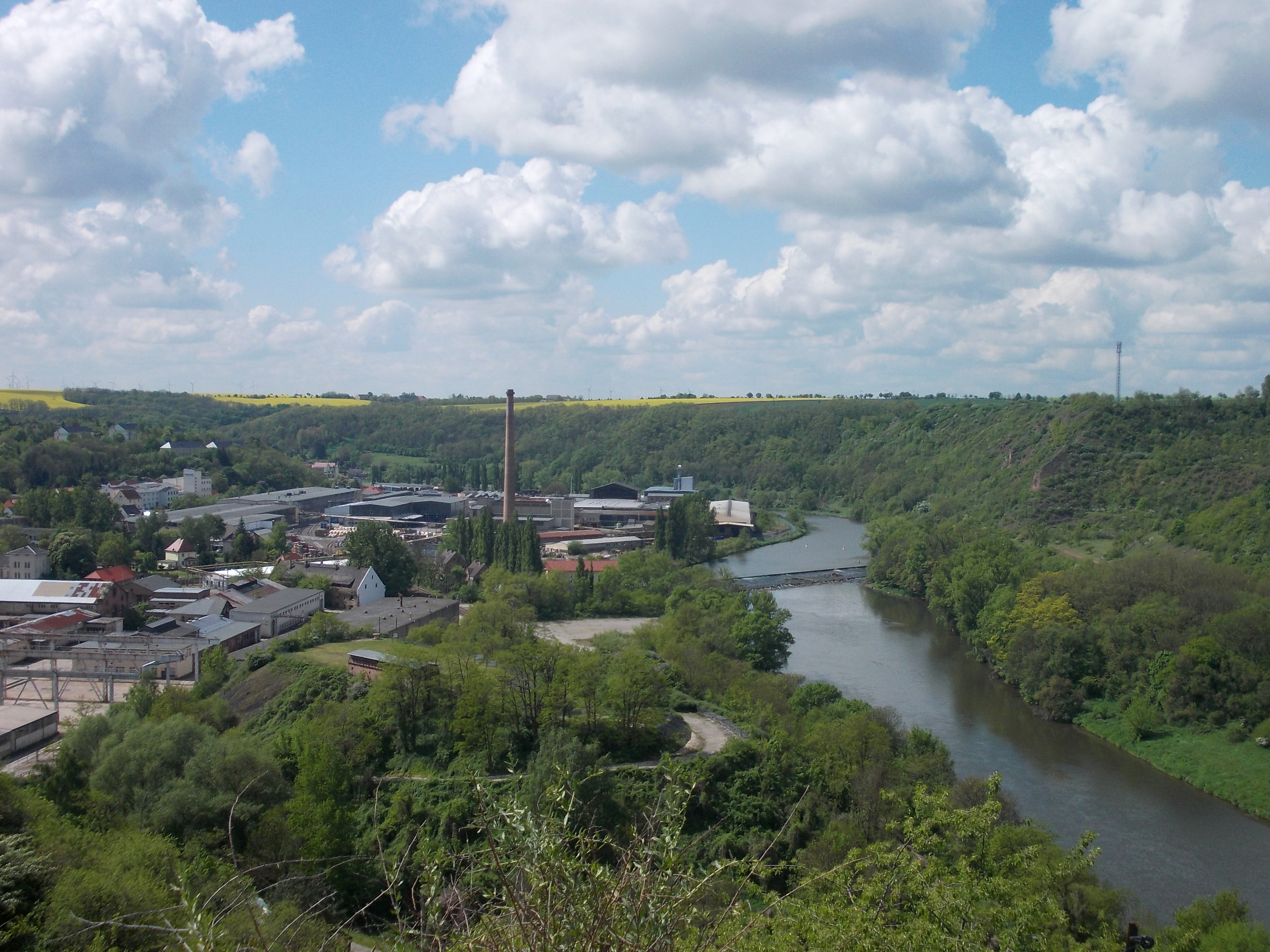 View of the Saale valley from Burgberg (castle hill) in Rithenburg (Wettin-Löbejün, district: Saalekreis, Saxony-Anhalt)